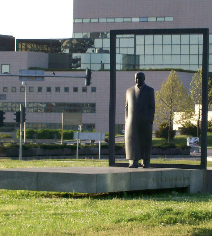 Monument in a tribute of Većeslav Holjevac in Zagreb